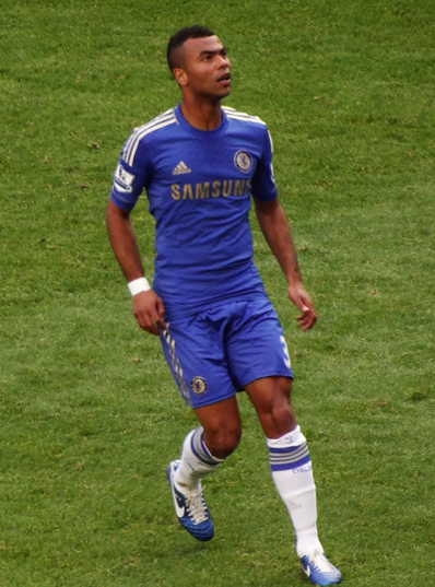 Cole playing against Norwich City Ashley Cole